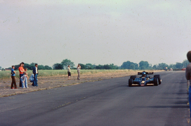 Lotus Formula One on Hethel test track, 1977 There is no mistaking the airfield origins of the Lotus test track at Hethel. This was an open day and a mechanic demonstrated the current F1 car without any safety measures for the watching crowd - not even a rope barrier. The date is approximate.